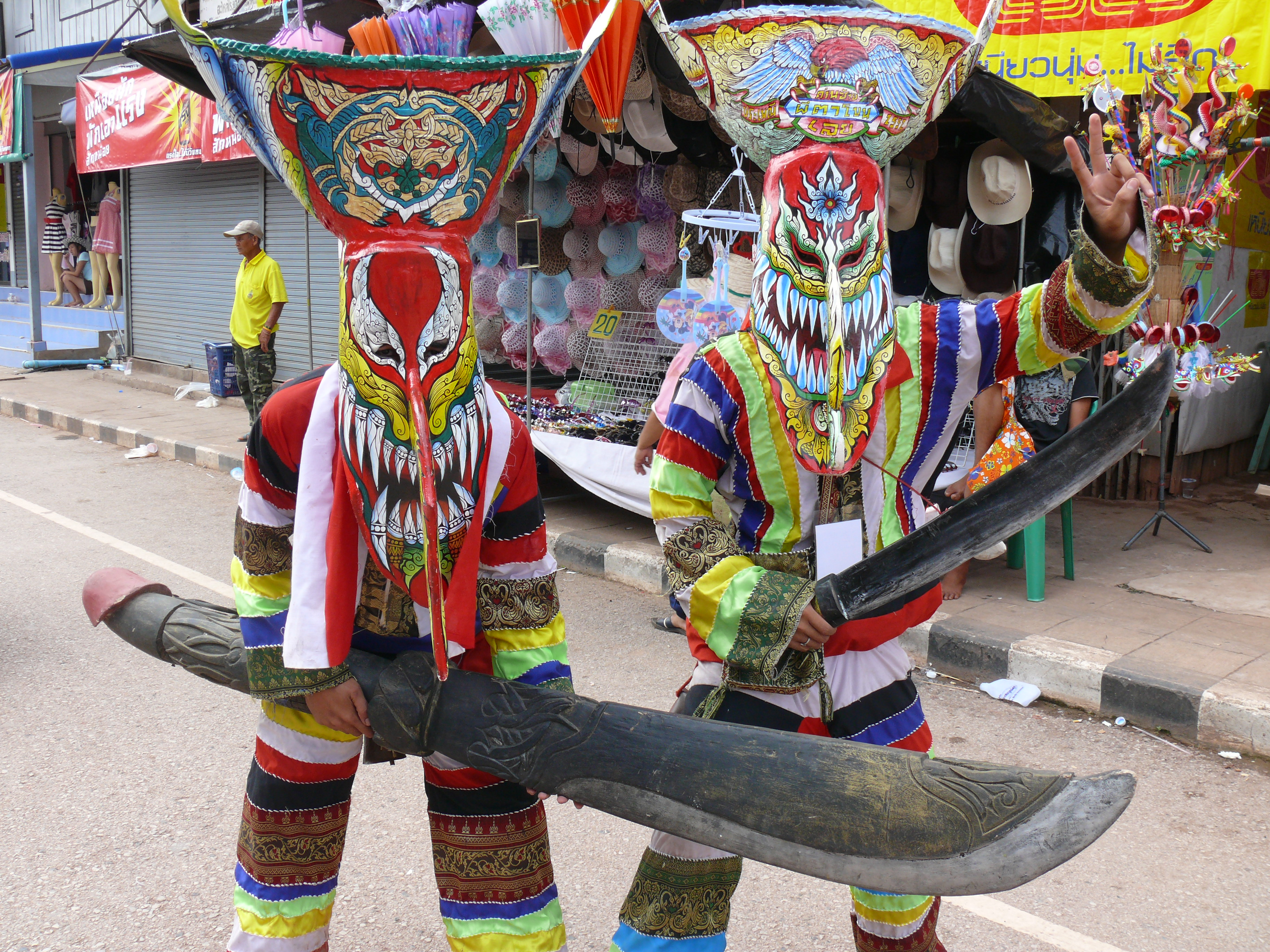 Traditional Phi Ta Kon masks. Masks worn at Dan Sai's Phi Ta Kon Festival, Dan Sai.